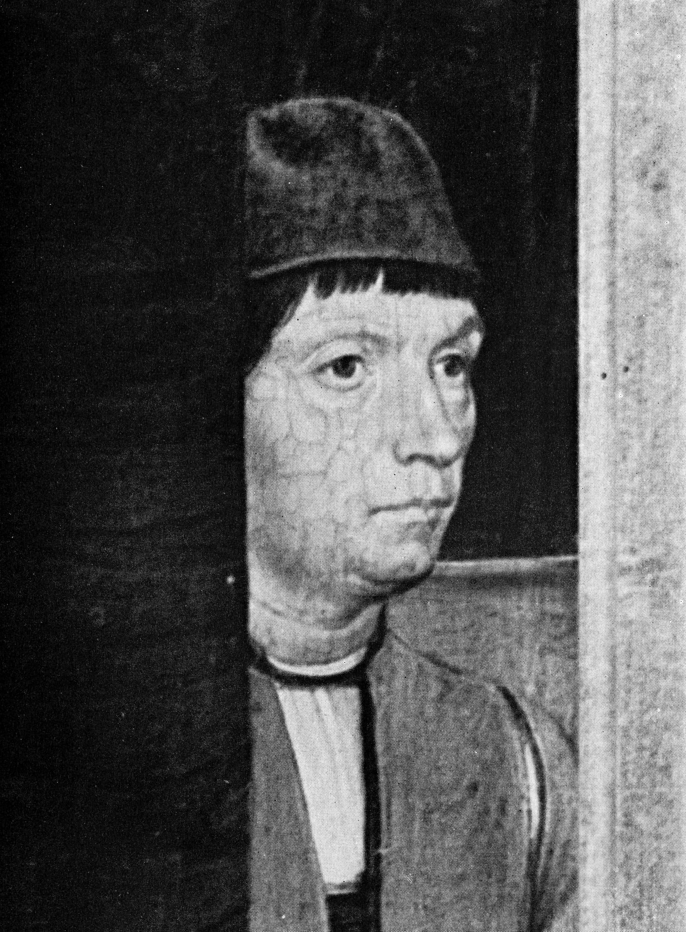 Hans Memling (1435-1494); 1468